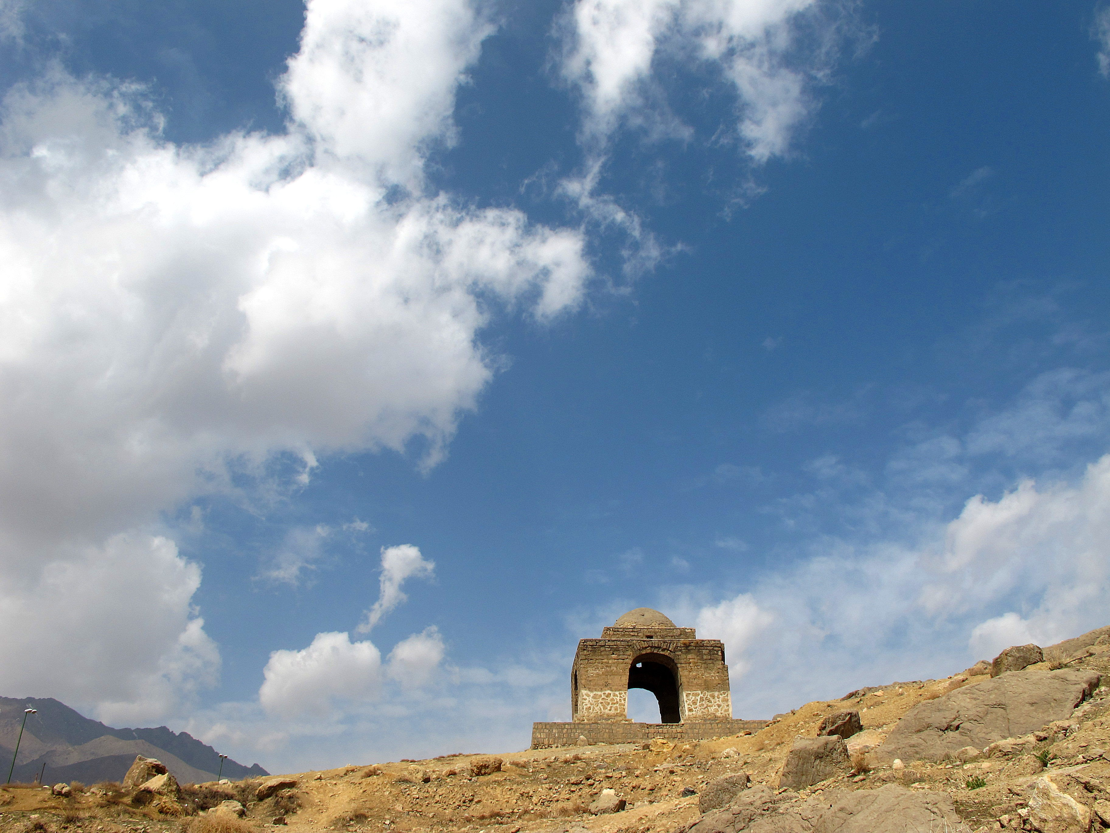 Chartaghi